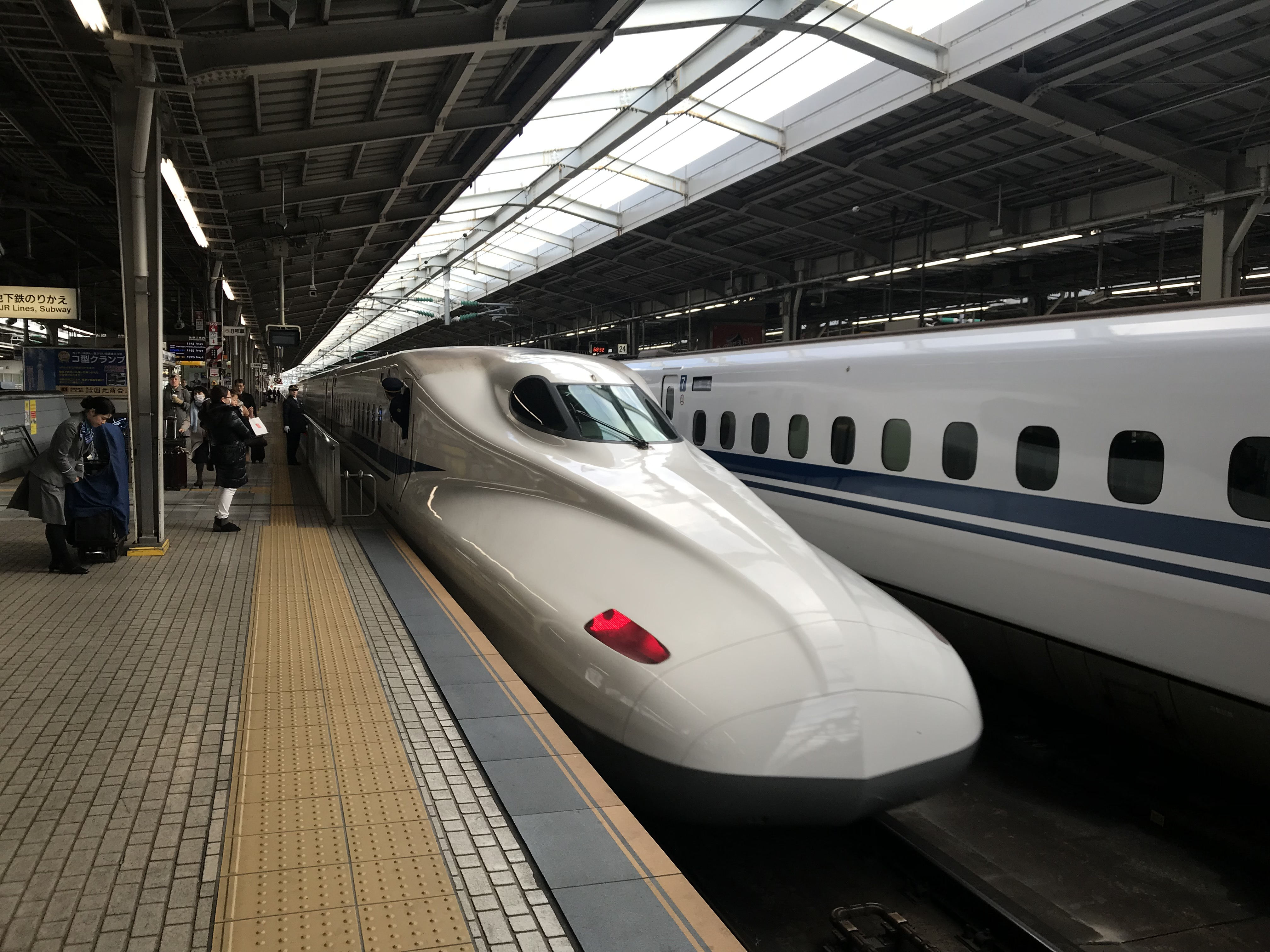 201801 Nozomi 10 at Shin-Osaka Station, delayed for 9 minutes